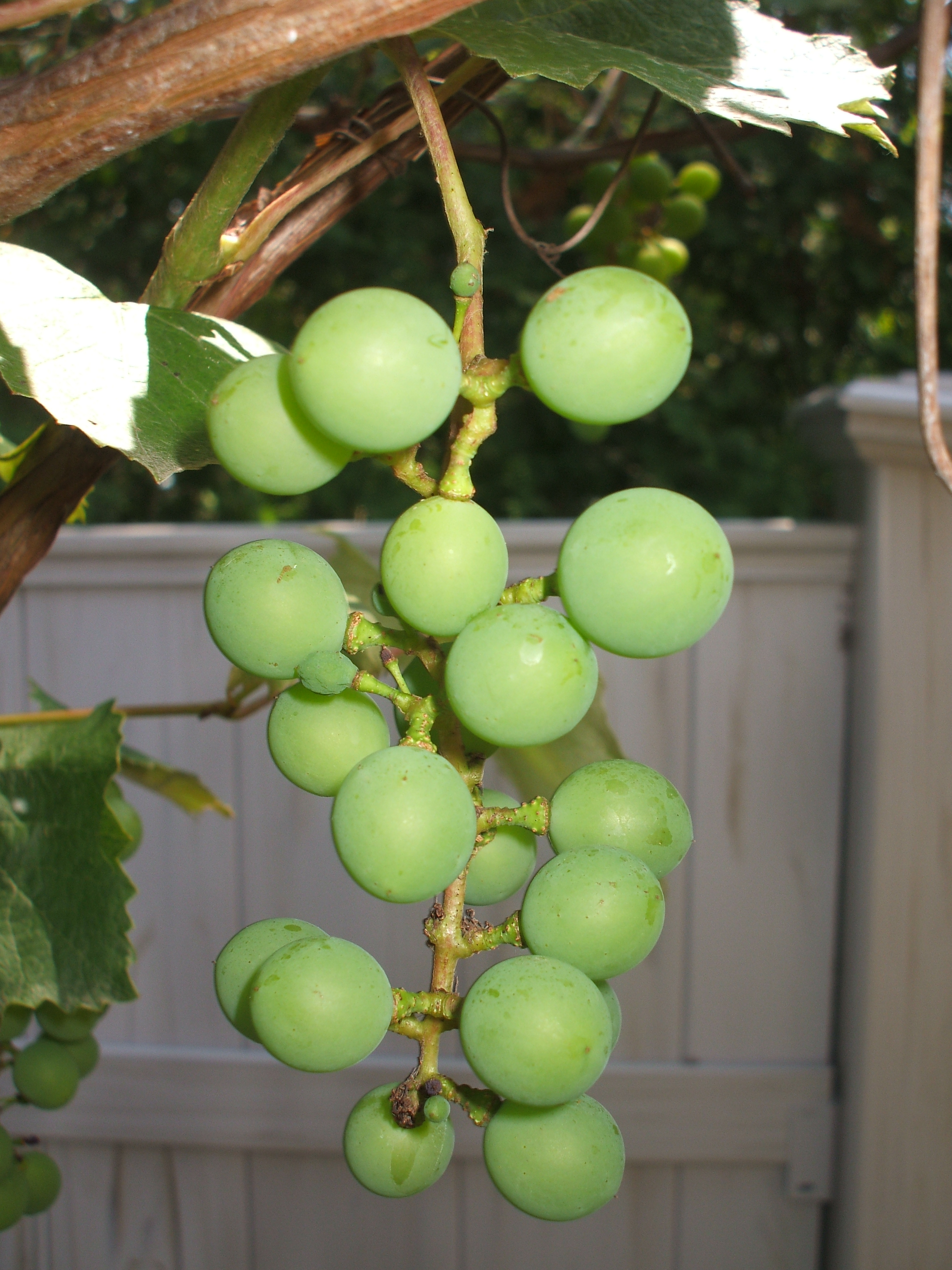 An example of a loose cluster bunch from the Vitis labrusca grape variety Niagara.